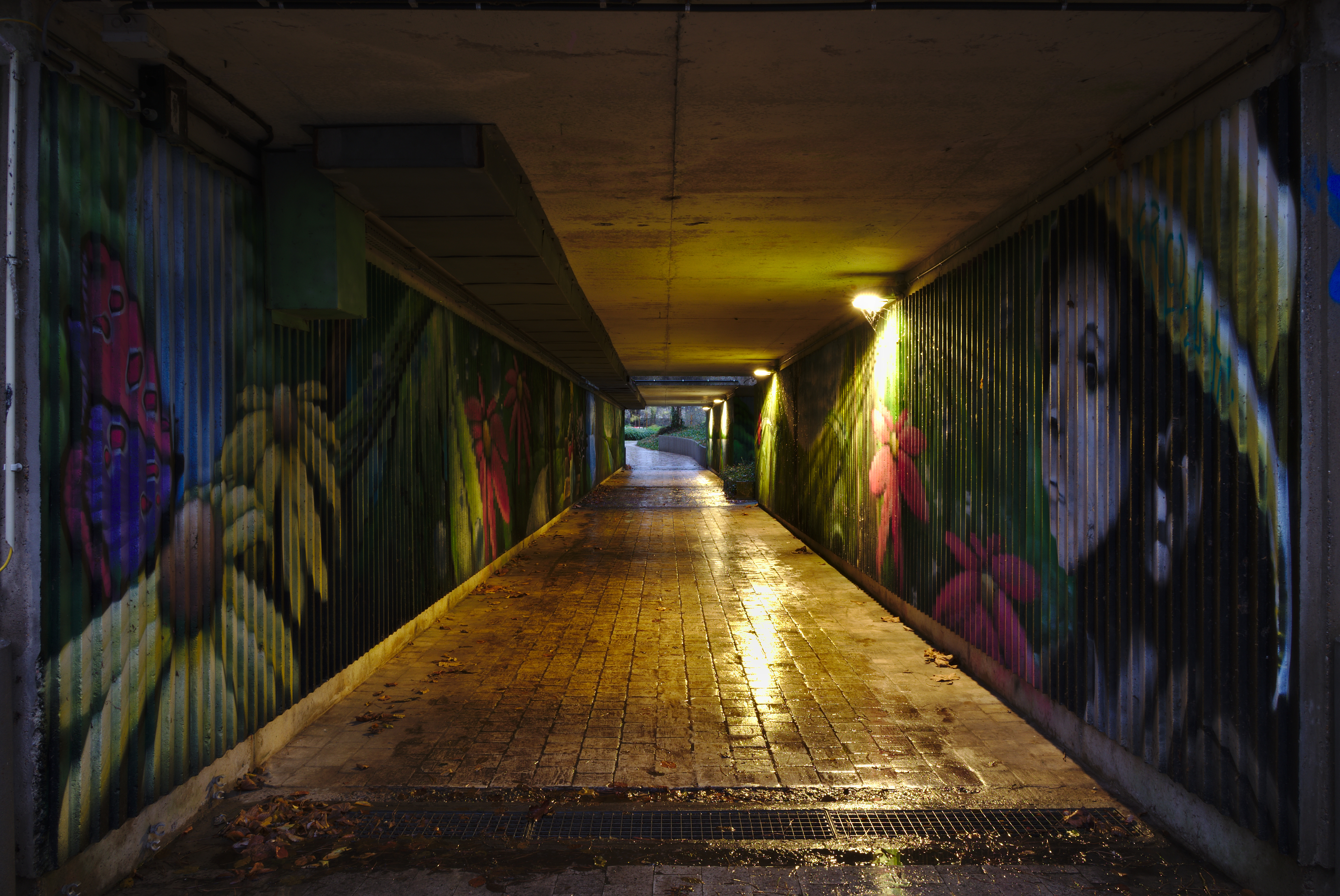 Pedestrian tunnel taking Chemin du Cyclotron below Boulevard Baudouin 1er, facing West (Ottignies-Louvain-la-Neuve, Belgium)